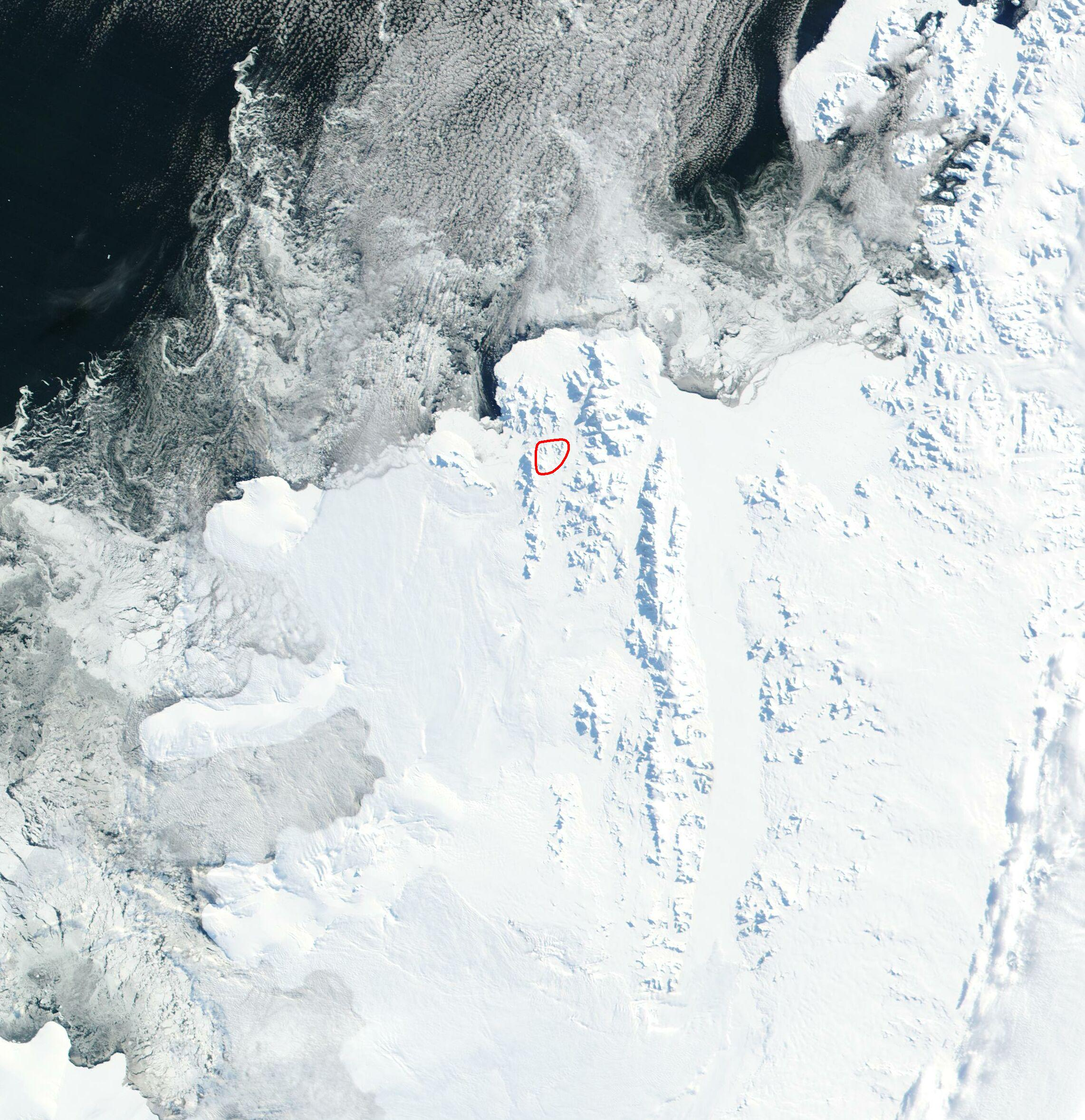 Source: 2002 NASA Visible Earth satellite image Bryan Coast, English Coast, Alexander Island, Fallieres Coast, and Bellingshausen Sea, Antarctica. Fragment edited and published by Apcbg 13:29, 22 July 2006 (UTC).